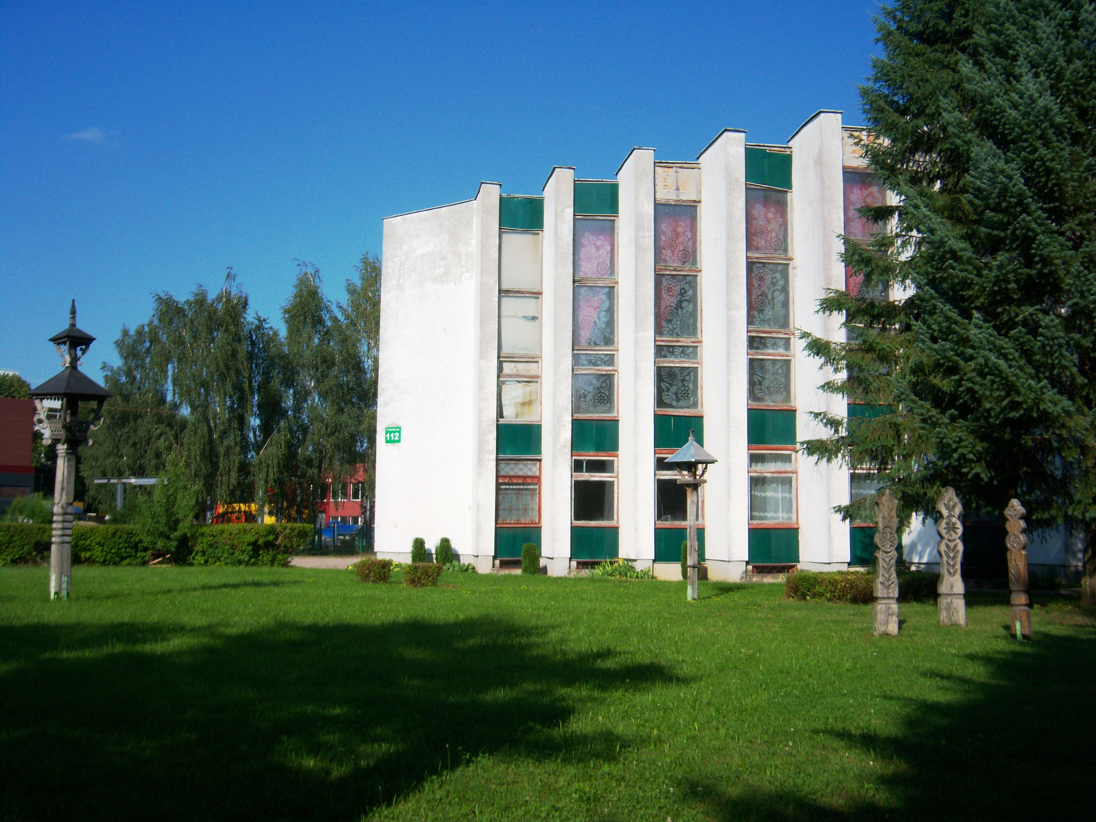 School of Applied Arts, Kaunas, Lithuania